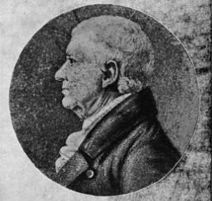 Profile portrait of Virginia statesman William Fitzhugh